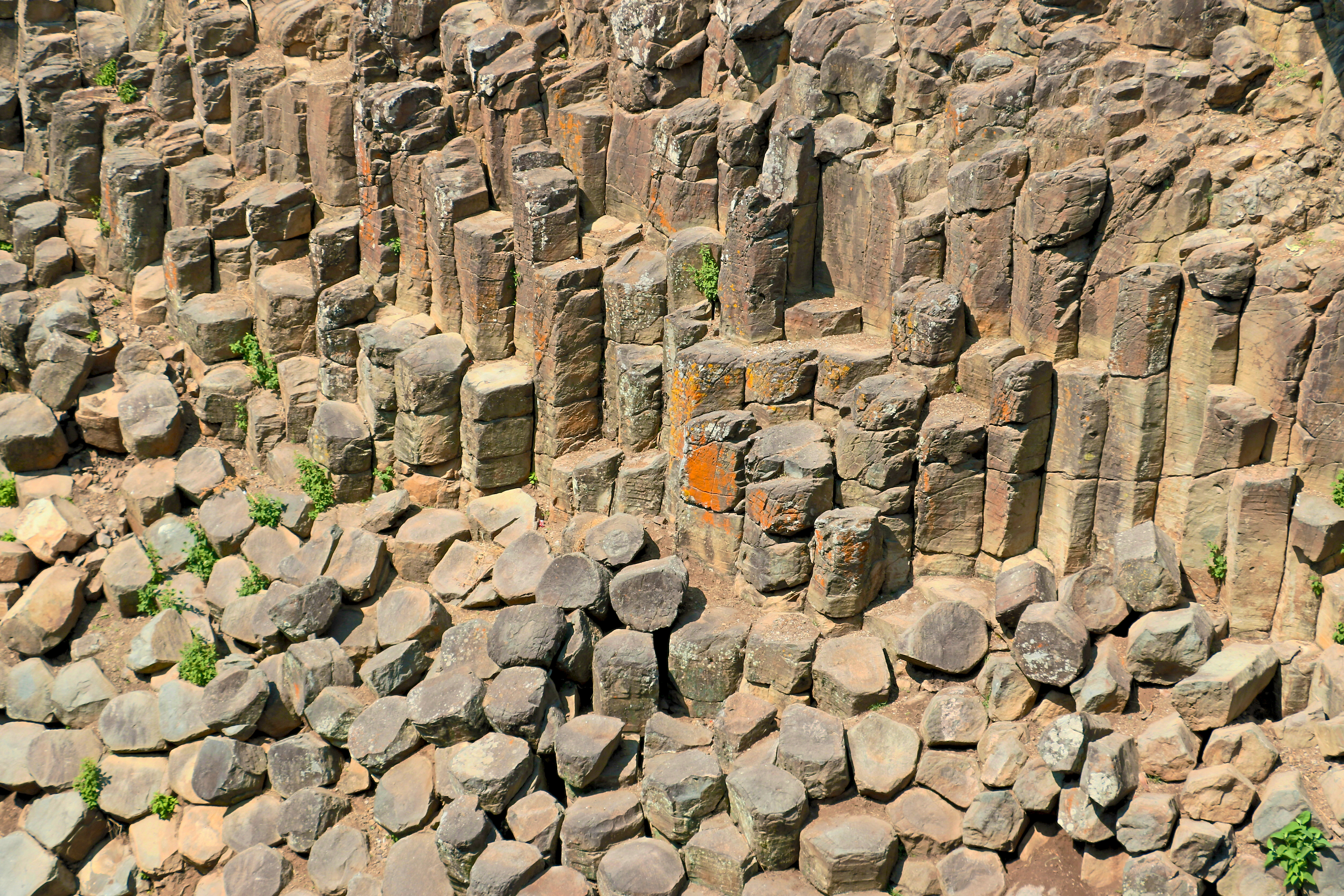 Basaltic Prisms of Santa María Regla